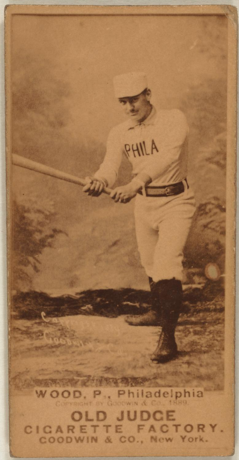 Baseball card of Pete Wood.